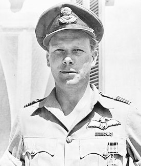 Wing Commander Billy Drake in May-June 1943. The United States Distinguished Flying Cross awarded to him can be partly seen, pinned to Drake's chest in the lower right corner of the picture.